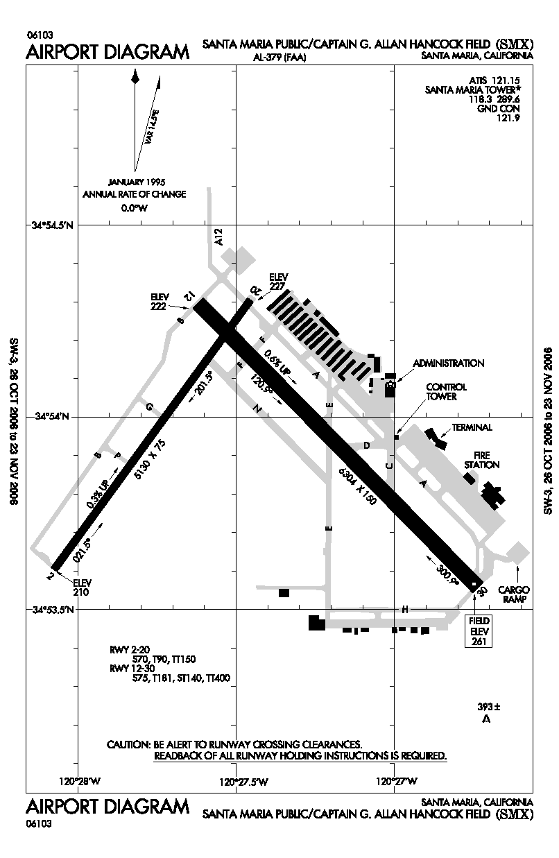 FAA airport diagram for SMX (Santa Maria Public Airport) in California, United States.